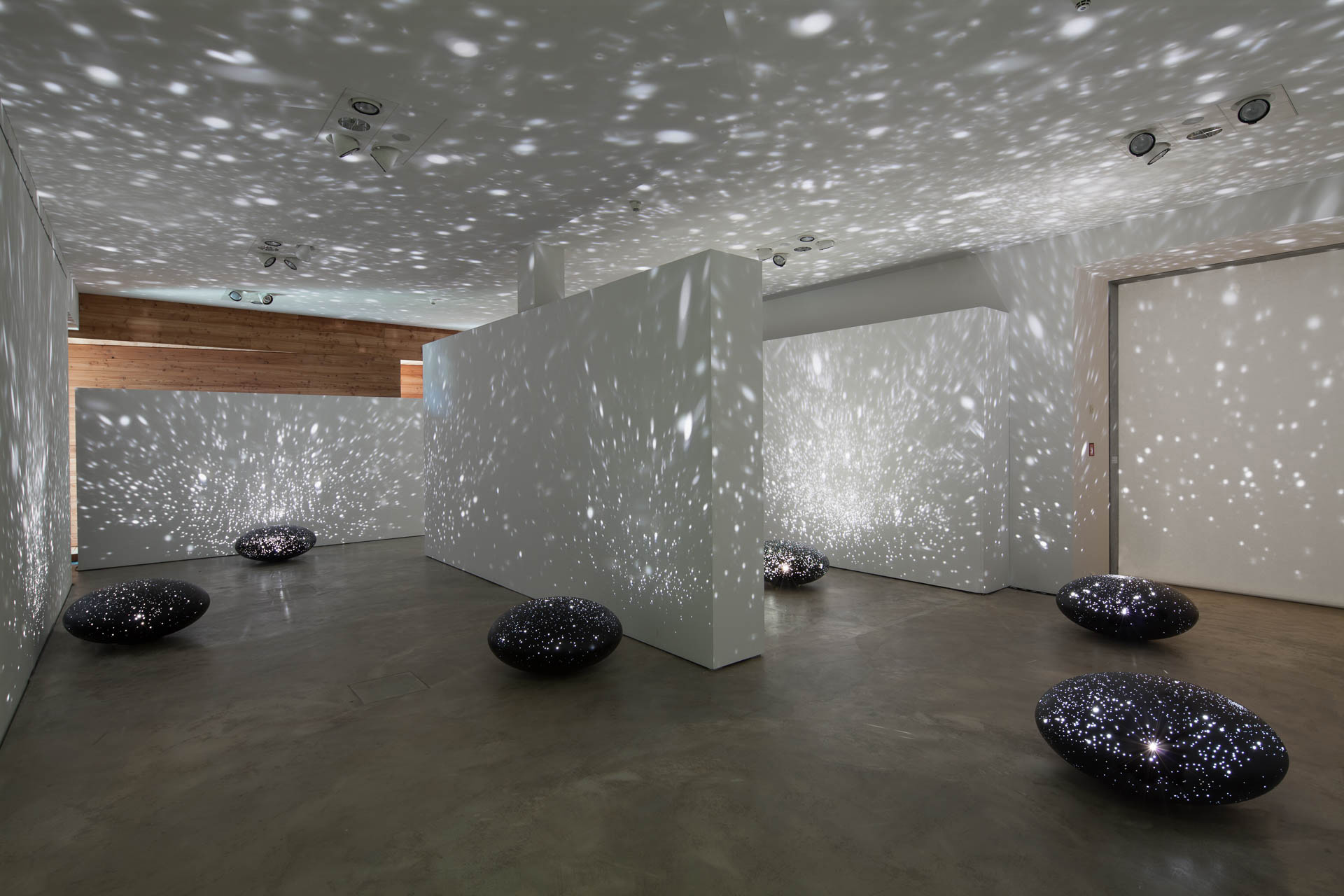 Birgitta Weimer, "survivors and other beings", Ausstellung im LVR-LandesMuseum Bonn, 2012